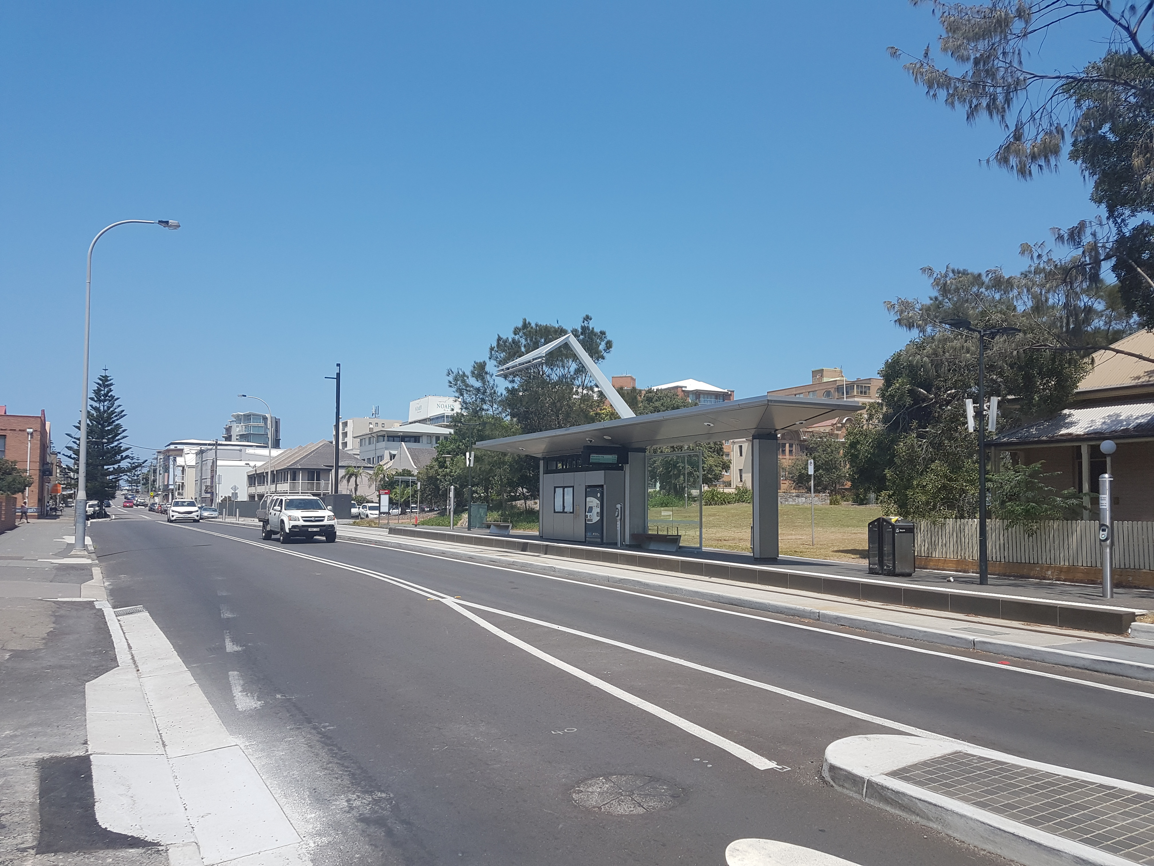 Newcastle Light Rail Newcastle Beach station